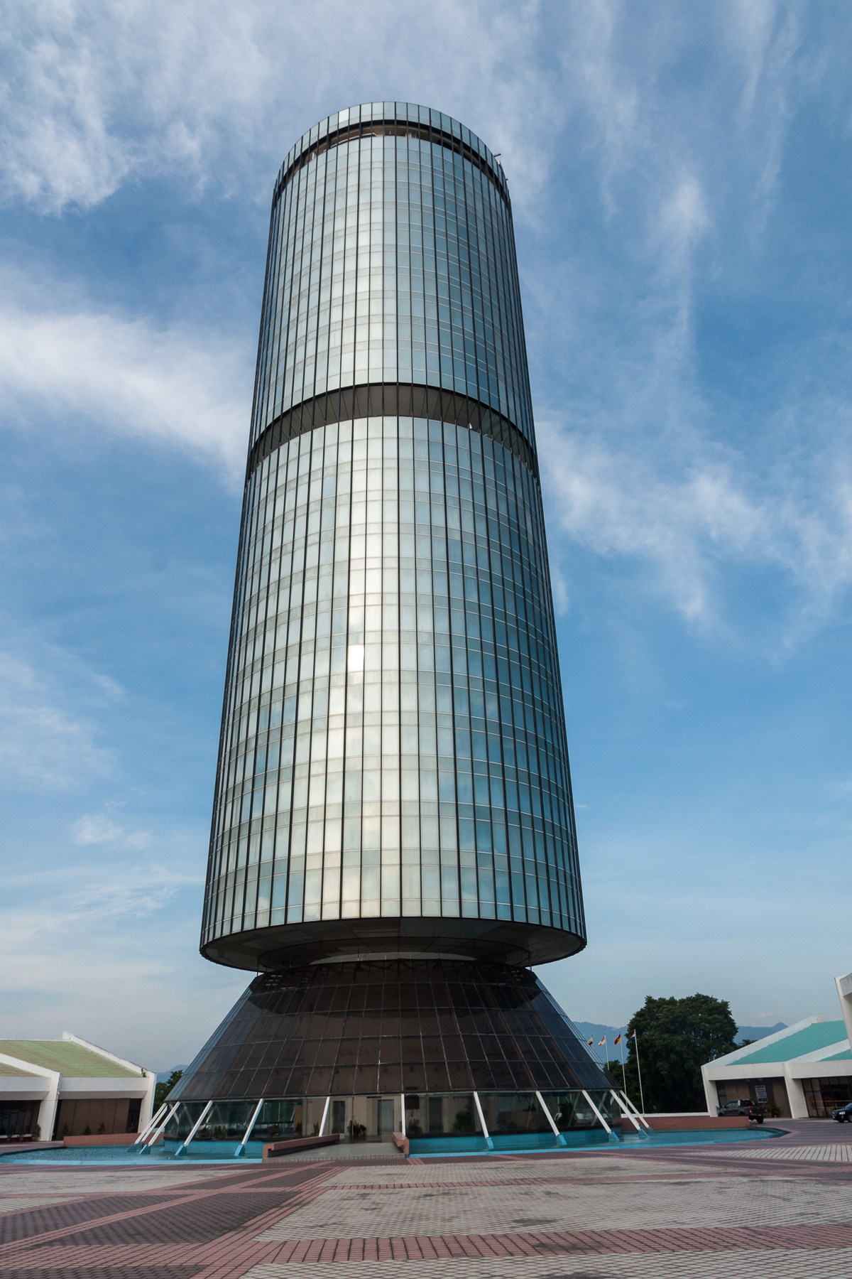 Kota Kinabalu, Sabah: Tun Mustapha Tower (Menara Tun Mustapha)